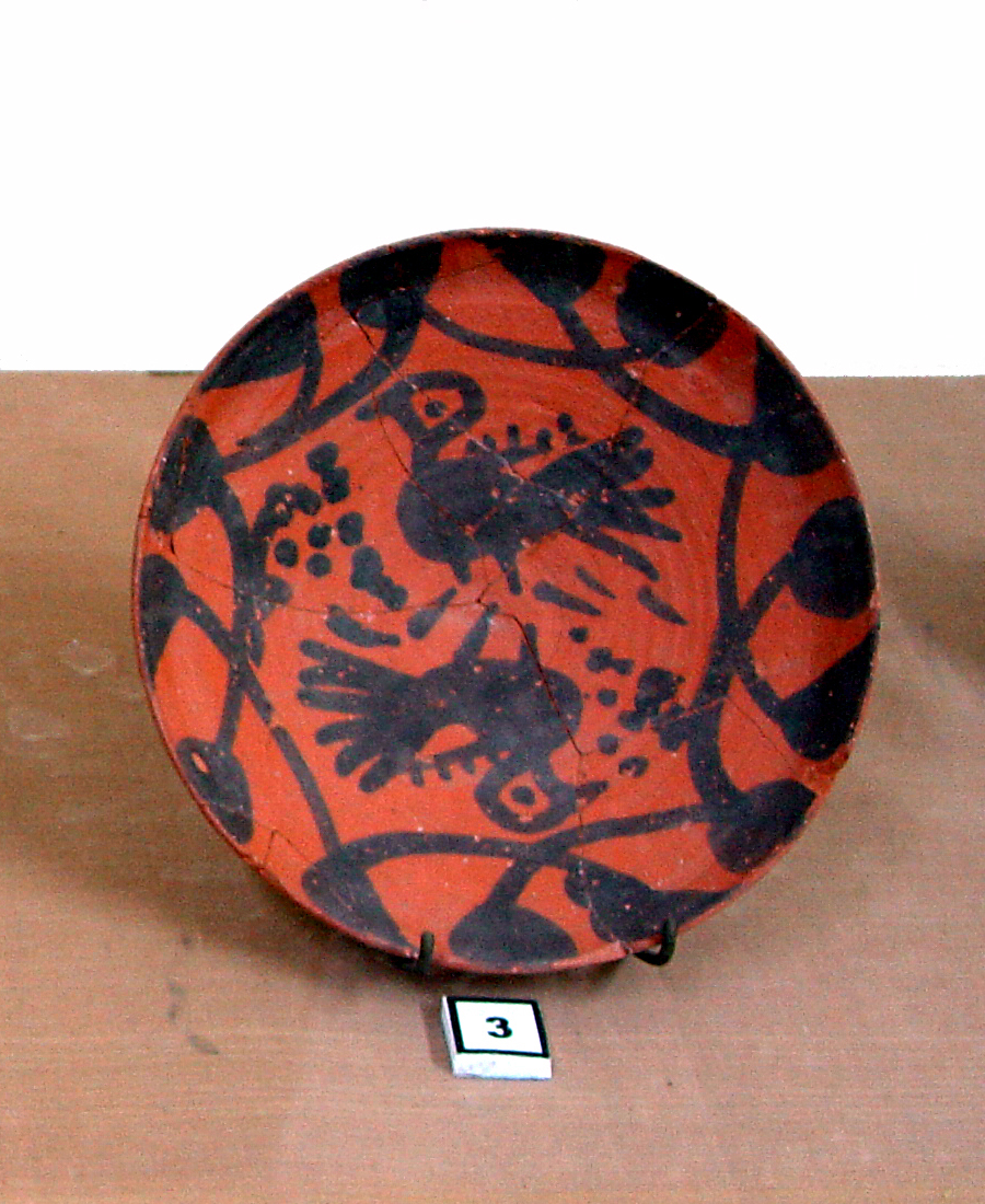 Pottery from Nabataea usually avoids figural representation and restricts itself to geometric or vegetal motifs. This bowl, however, is an exception to this rule. Found near the Temple of the Winged Lions, and dating around 300 AD, it depicts two birds eating grapes.